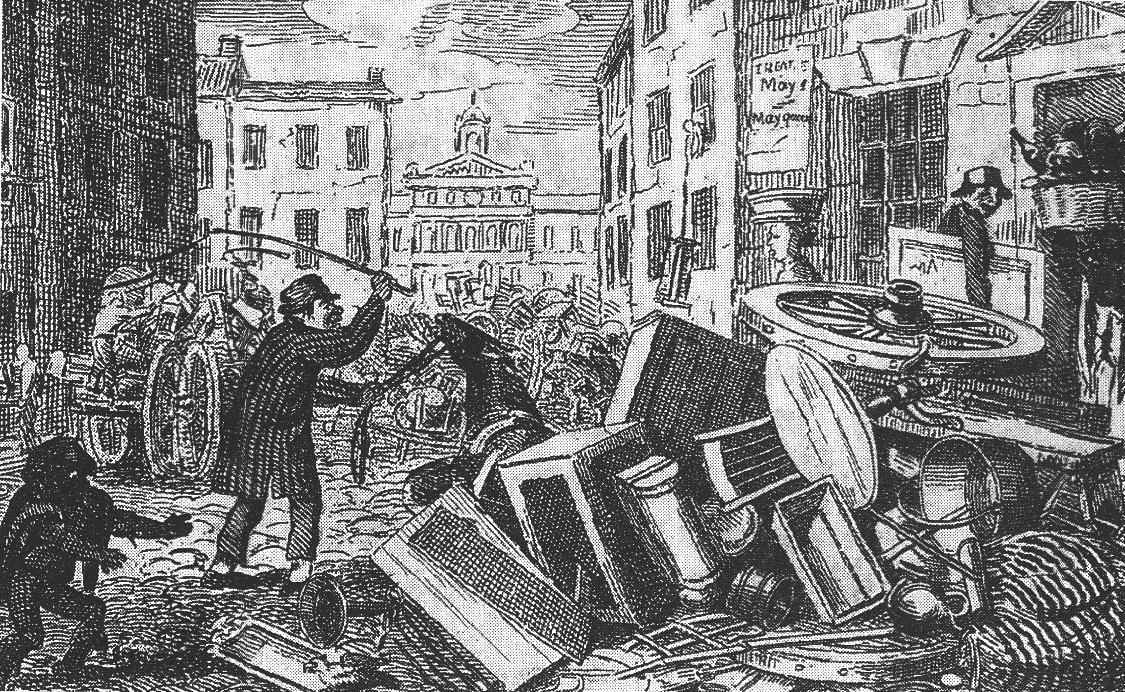 "May Day" - Cartoon depicting Moving Day (May 1) in New York City in 1831